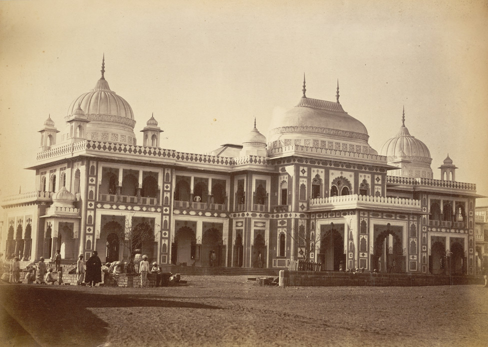 Photograph of the main facade of the High School at Bhavnagar in Gujarat, taken by an unknown photographer, from an album of 40 prints dating from the 1860s.